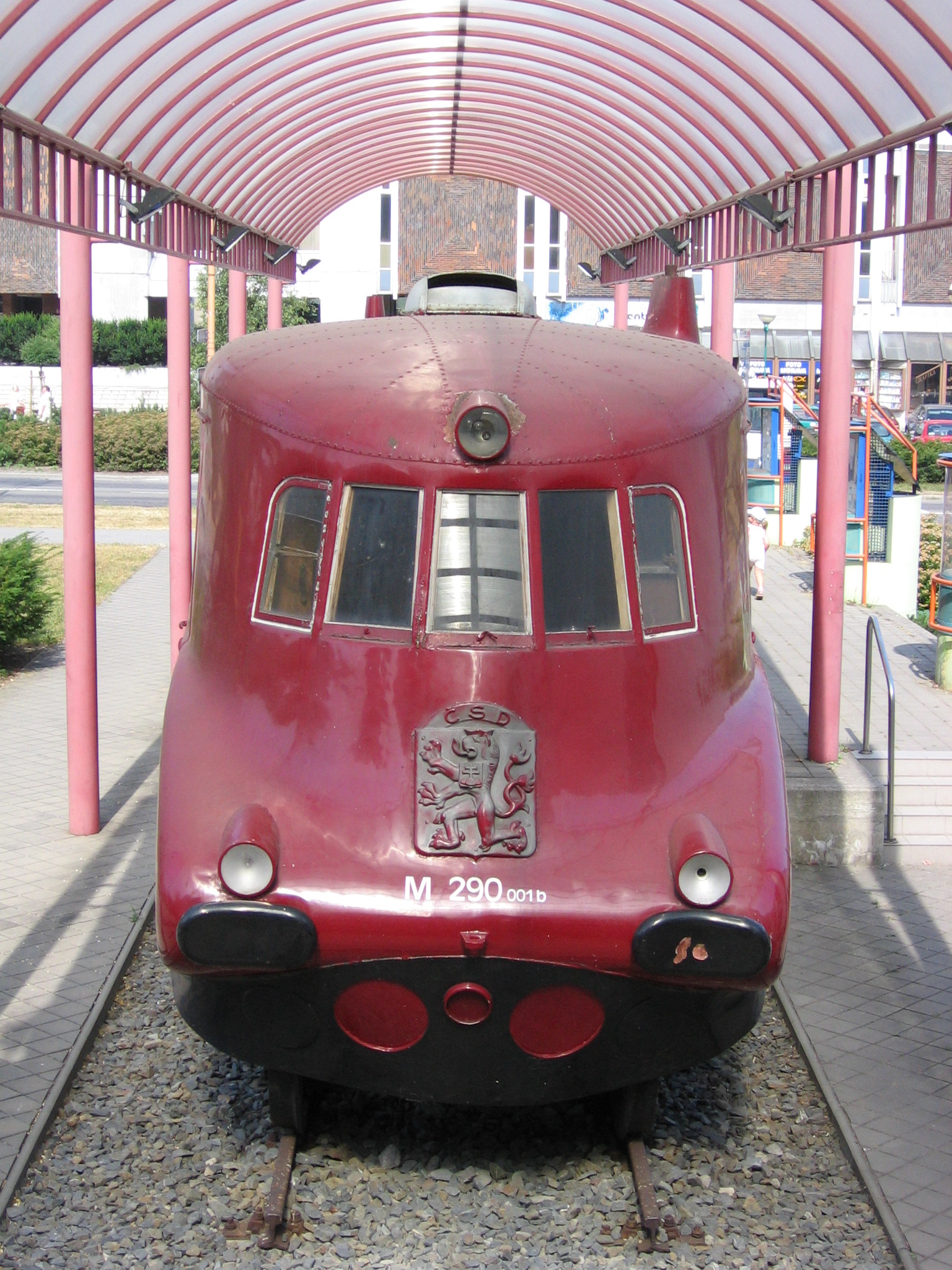 „Slovenská strela“ in front of Technical museum Tatra in Kopřivnice, Czech Republic